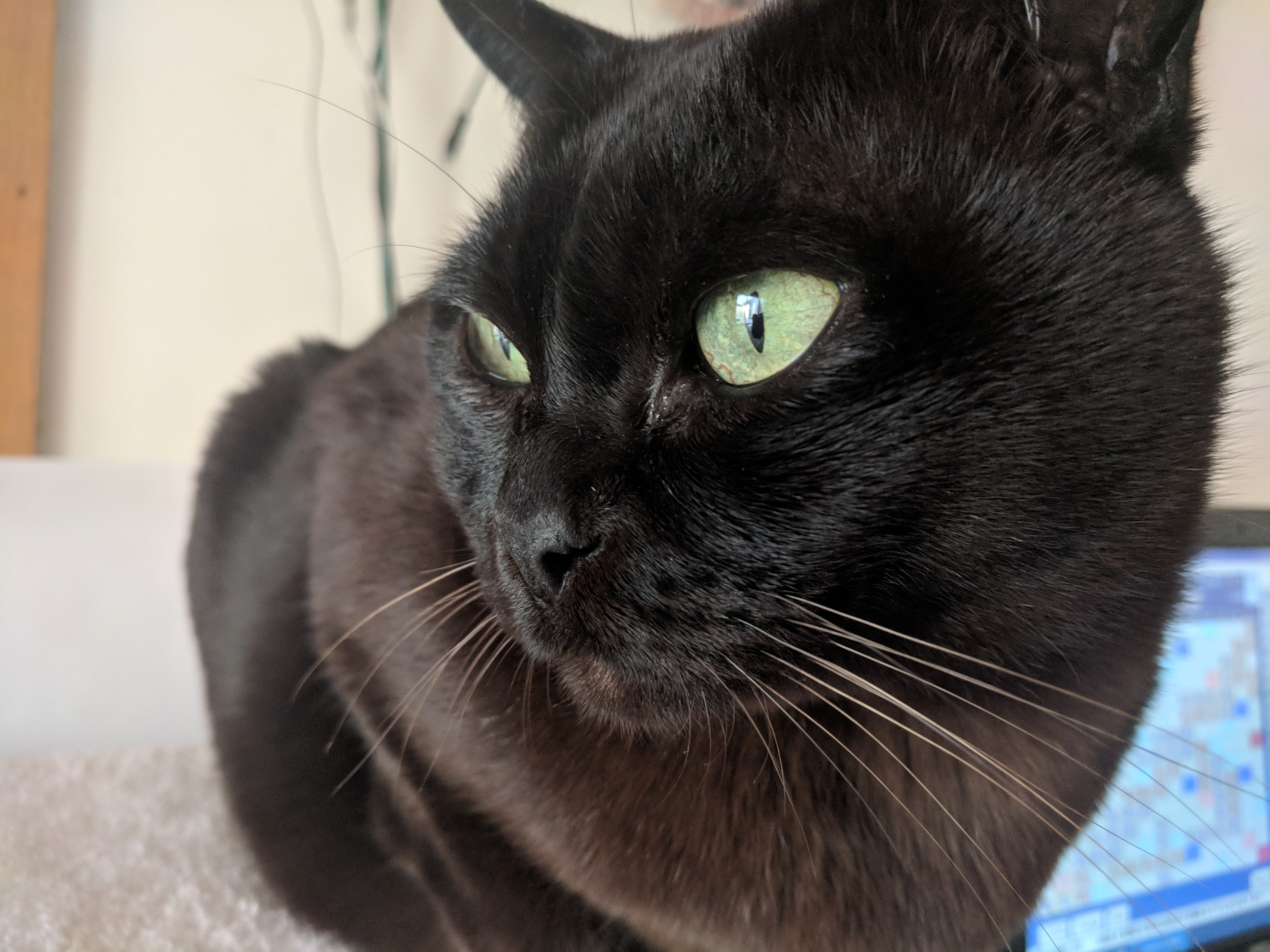 Male Brown/Sable Australian Burmese Cat